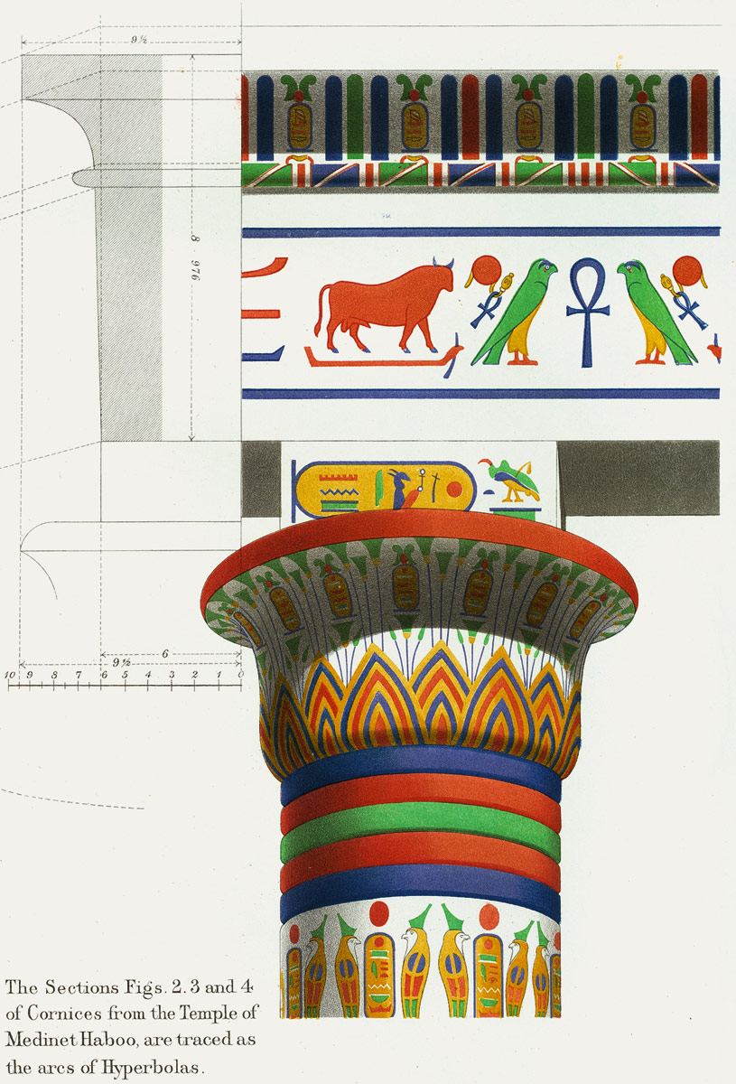 Detail view of the Temple of Medinet Haboo, from: John Pennethorne: The Geometry and Optics of Ancient Architecture, Illustrated By Examples from Thebes, Athens and Rome, London and Edinburgh, Williams and Norgate, 1878.